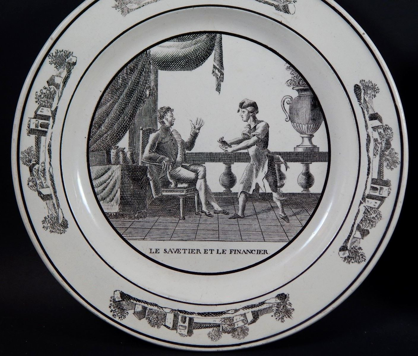 The final episode from La Fontaine’s fable of “The Cobbler and the Financier”, reproduced in grisaille on a plate from the Montereau Pottery, c.1810, with a design of an ancient town gateway round the rim